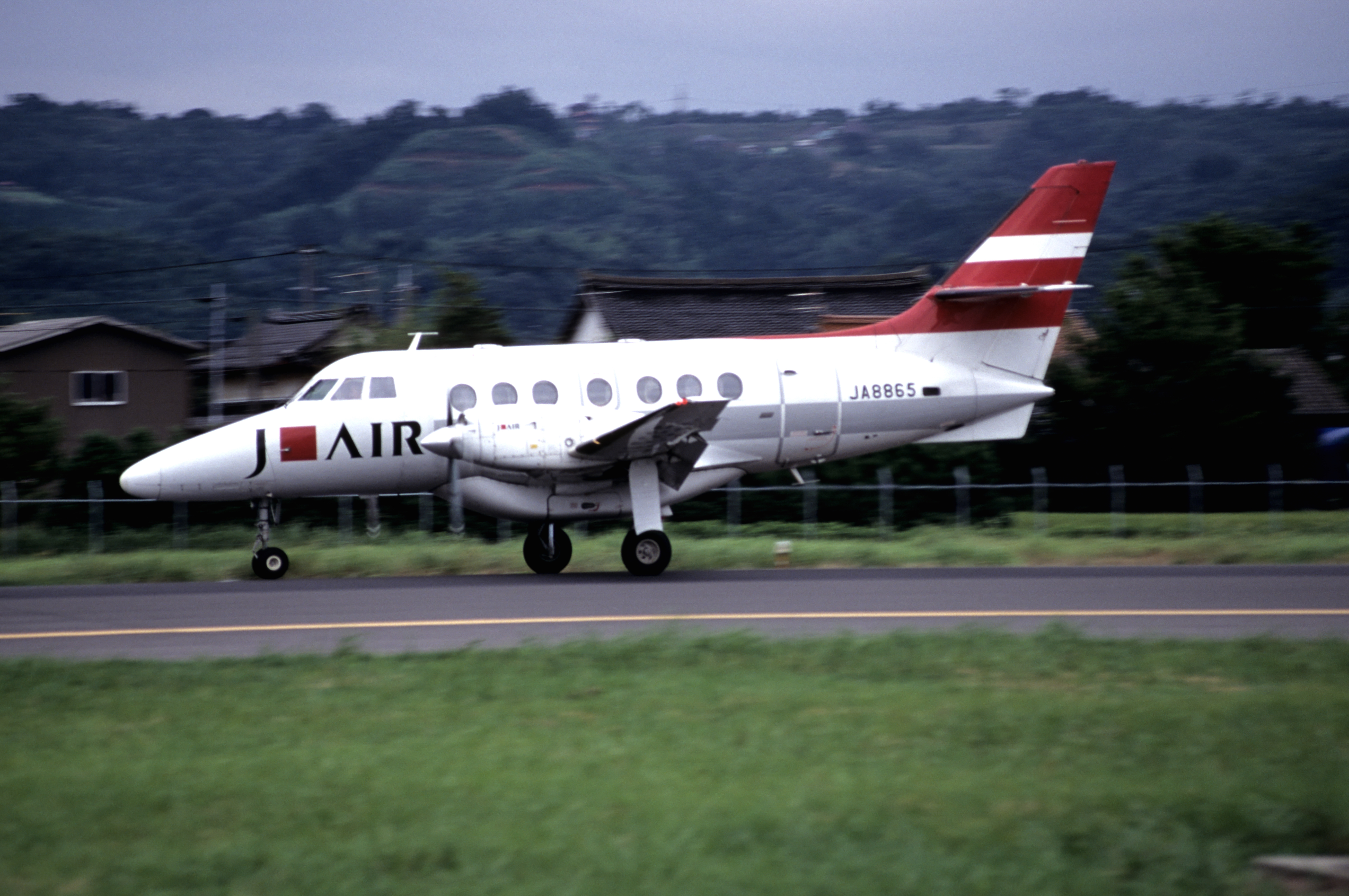 J-AIR BAe 3217 Jetstream Super31 (JA8865/981)